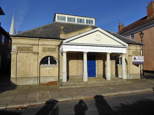 Former Corn Exchange, Hadleigh